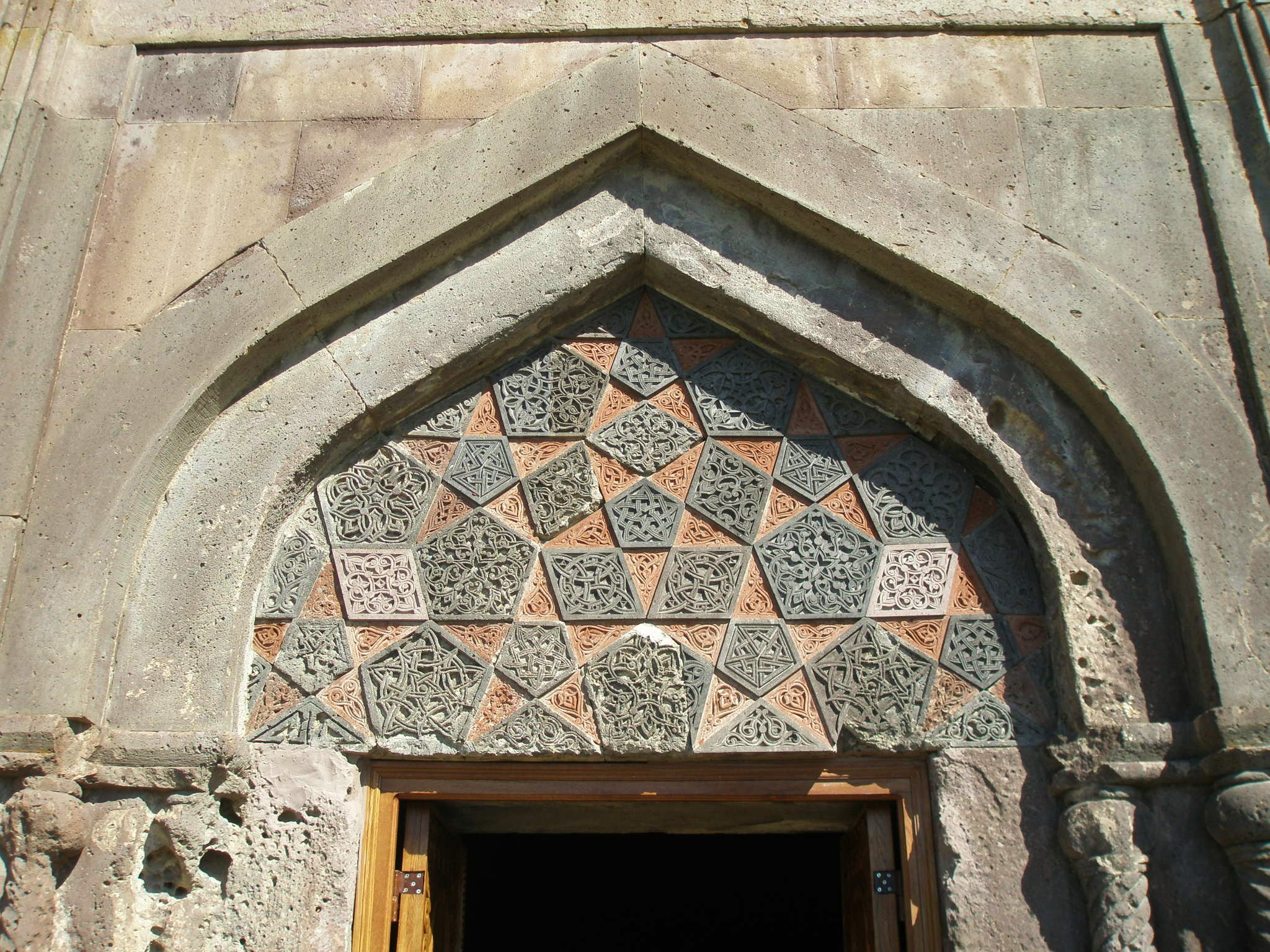 Tympanum above the rear portal at Harichavank / Haritchavank.